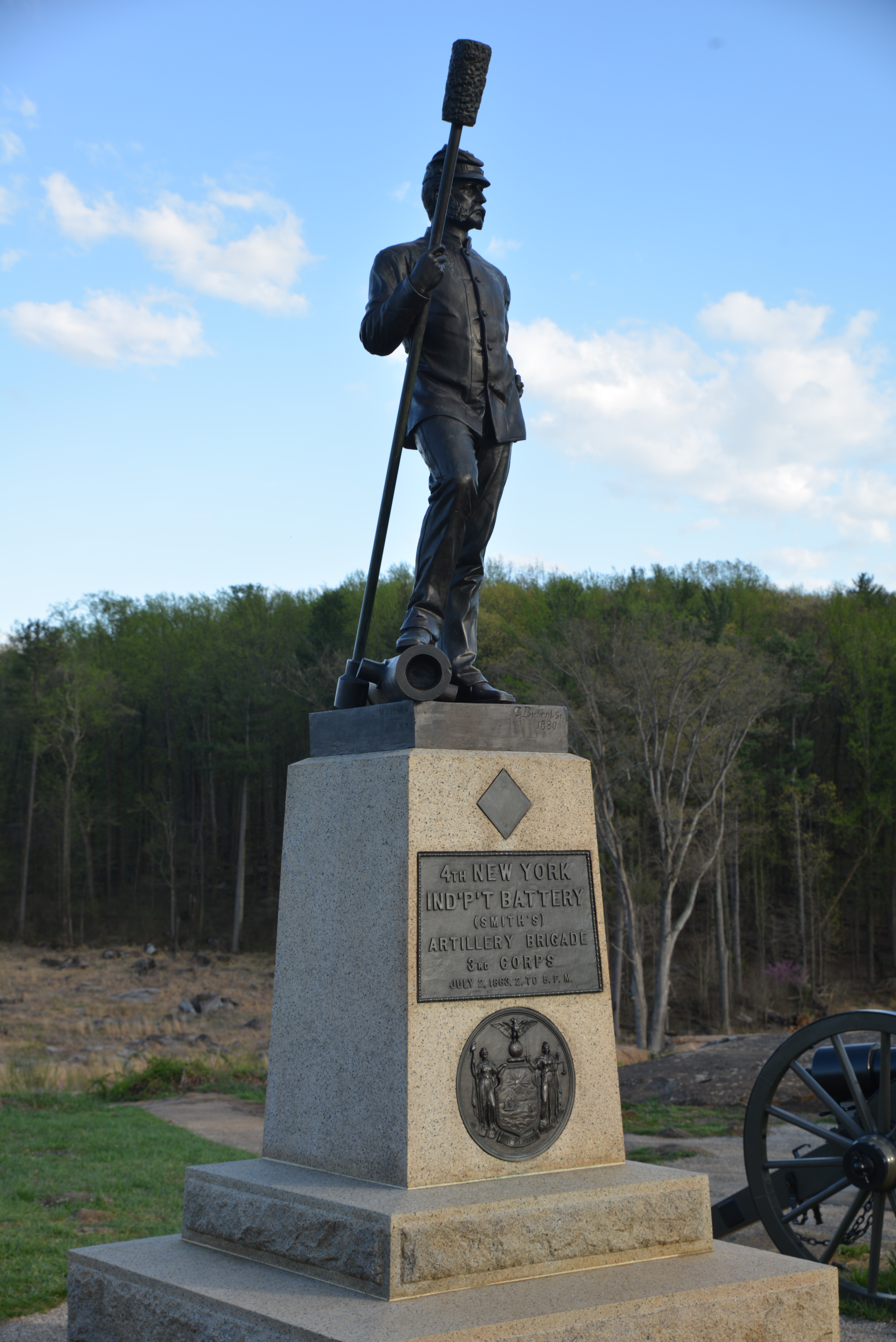 4th New York Independent Battery Monument on Sickles Avenue, Gettysburg Battlefield, Pennsylvania, US